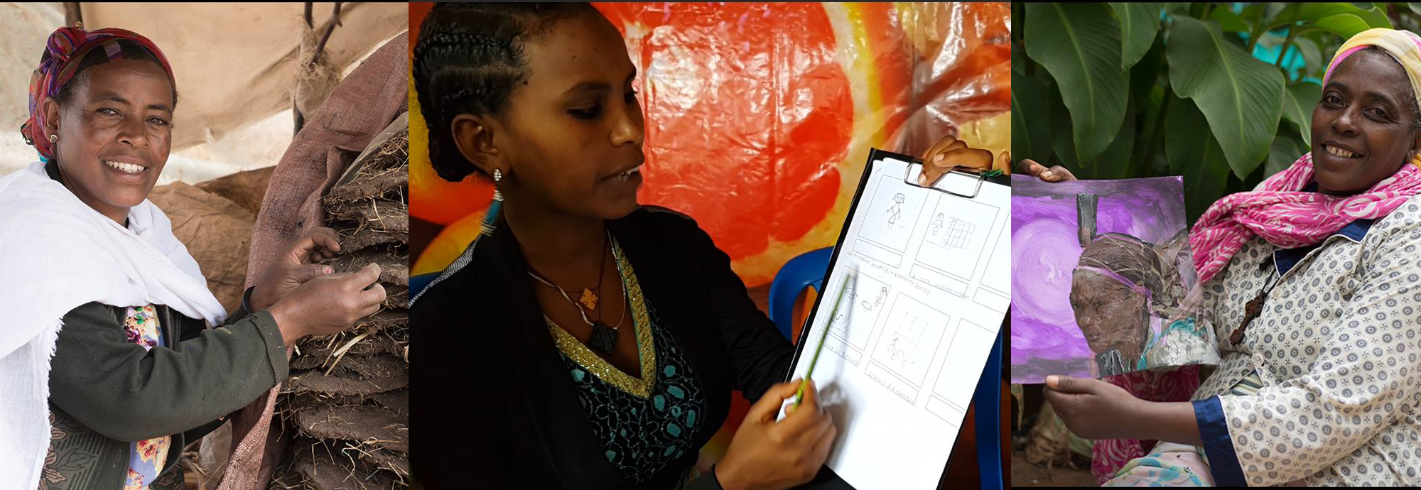 Before writing starts orality precedes in order to help the instructor help facilitate the composition